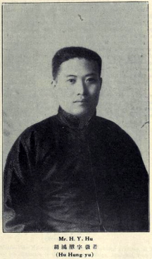 Hu Hongyou (1888-？)